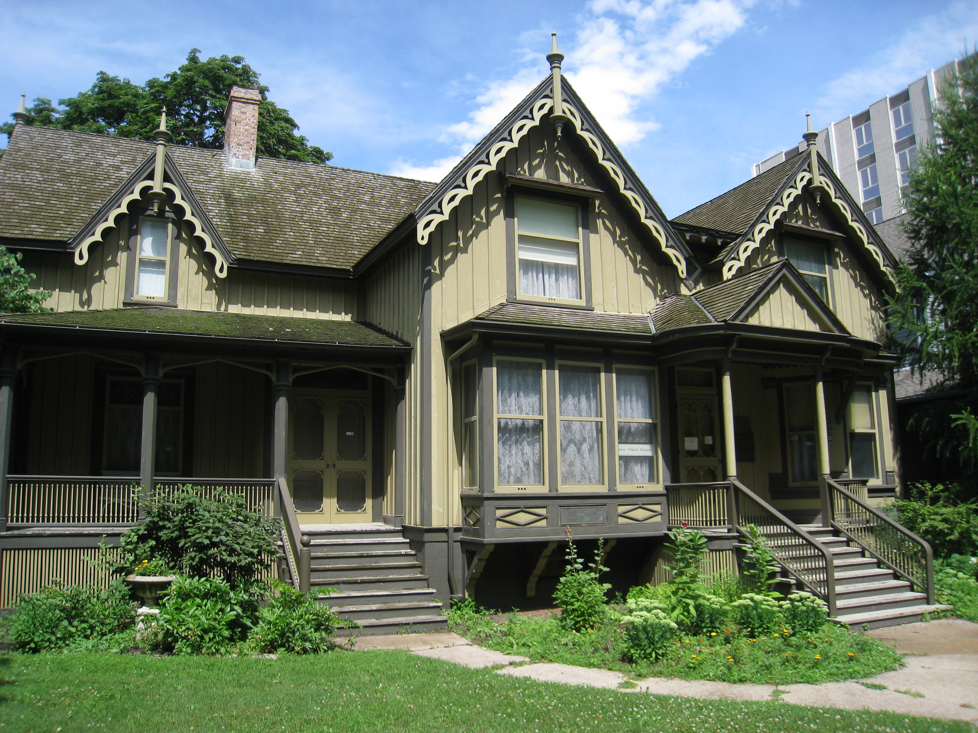 Frances Willard House, 1730 Chicago Avenue, Evanston, Illinois, USA. Home of Frances Willard and longtime headquarters of the Woman's Christian Temperance Union. National Historic Landmark.